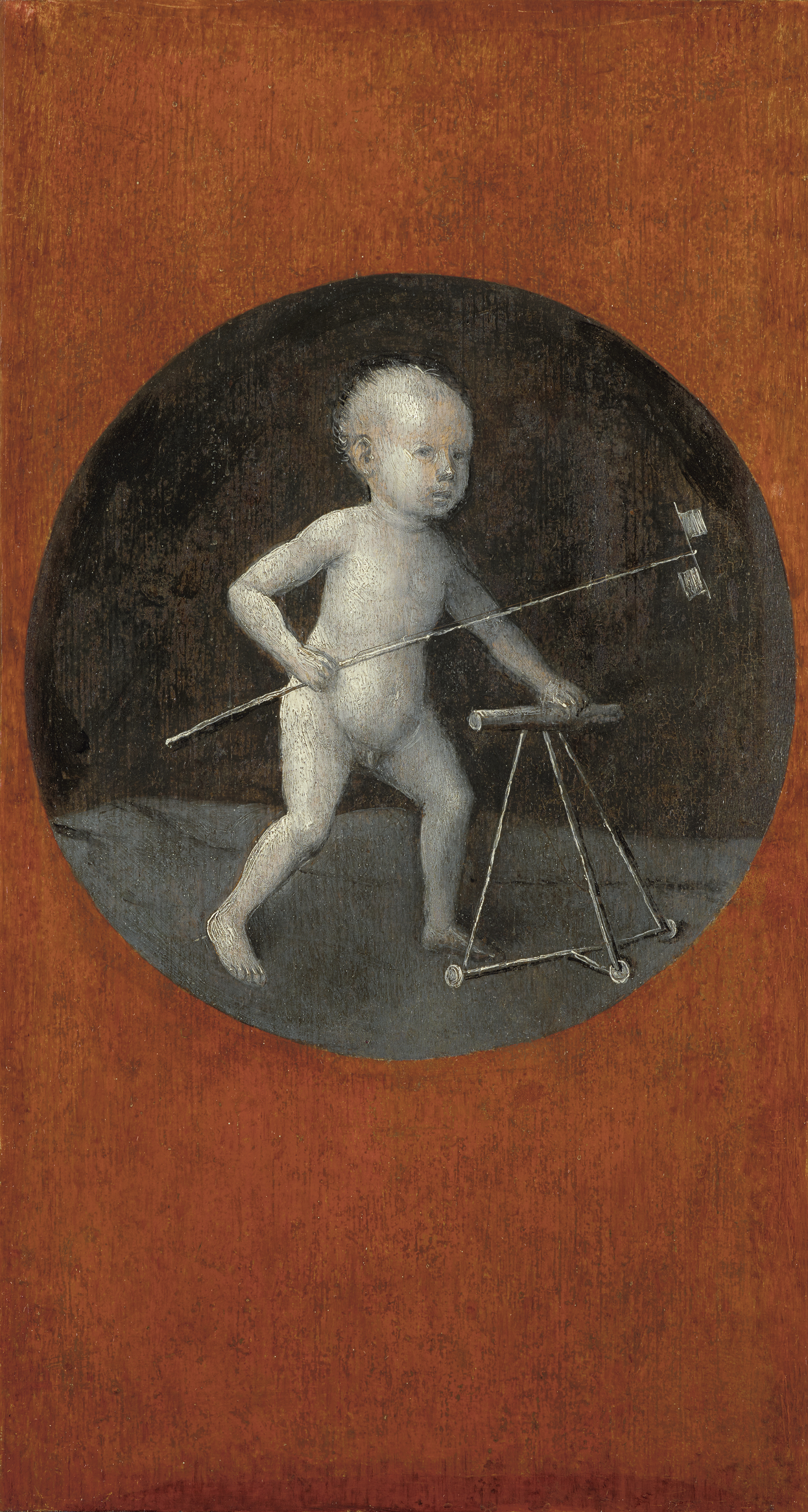 Reverse of a two-sided painting. For the front, see File:Hieronymus Bosch 054.jpg.